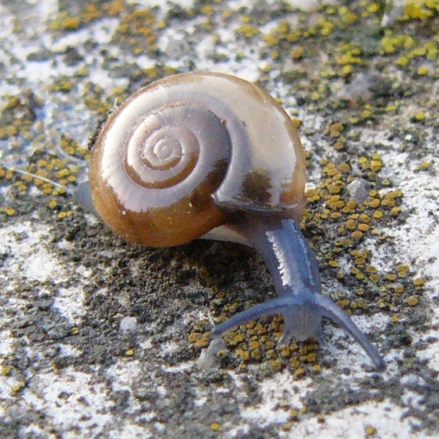 Photo of Oxychilus draparnaudi. Locality: garden, Olomouc, the Czech Republic.